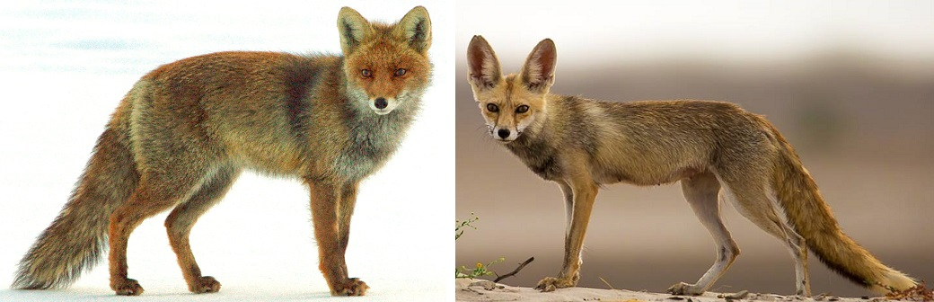 Comparative photo of a northern red fox (from the Dolomites of Italy) and an Asian desert red fox (Little Rann of Kutch)